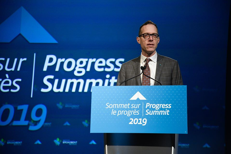 Rick Smith at Progress Summit 2019 in Ottawa.